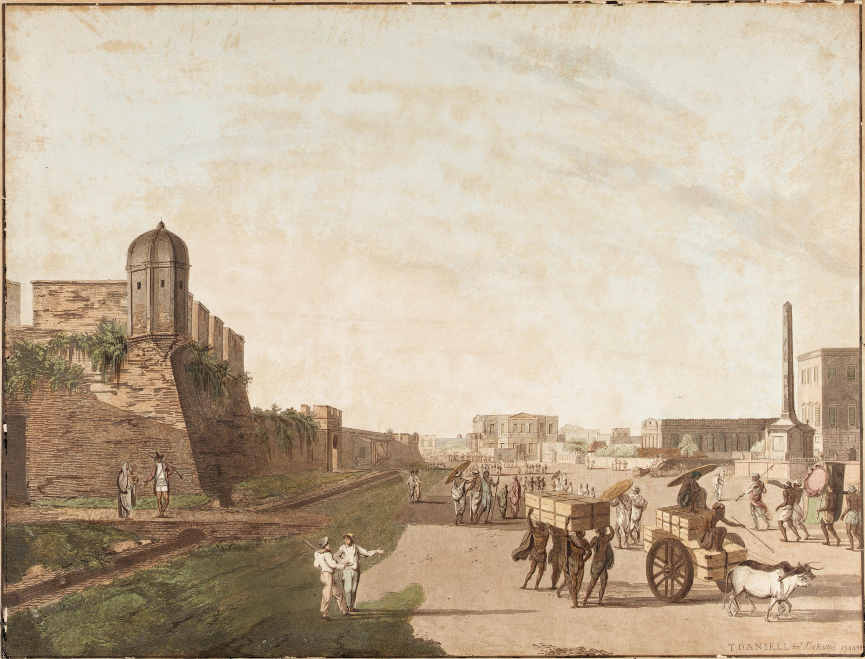 The Old Fort, the Playhouse, Holwell's Monument from Views of Calcutta